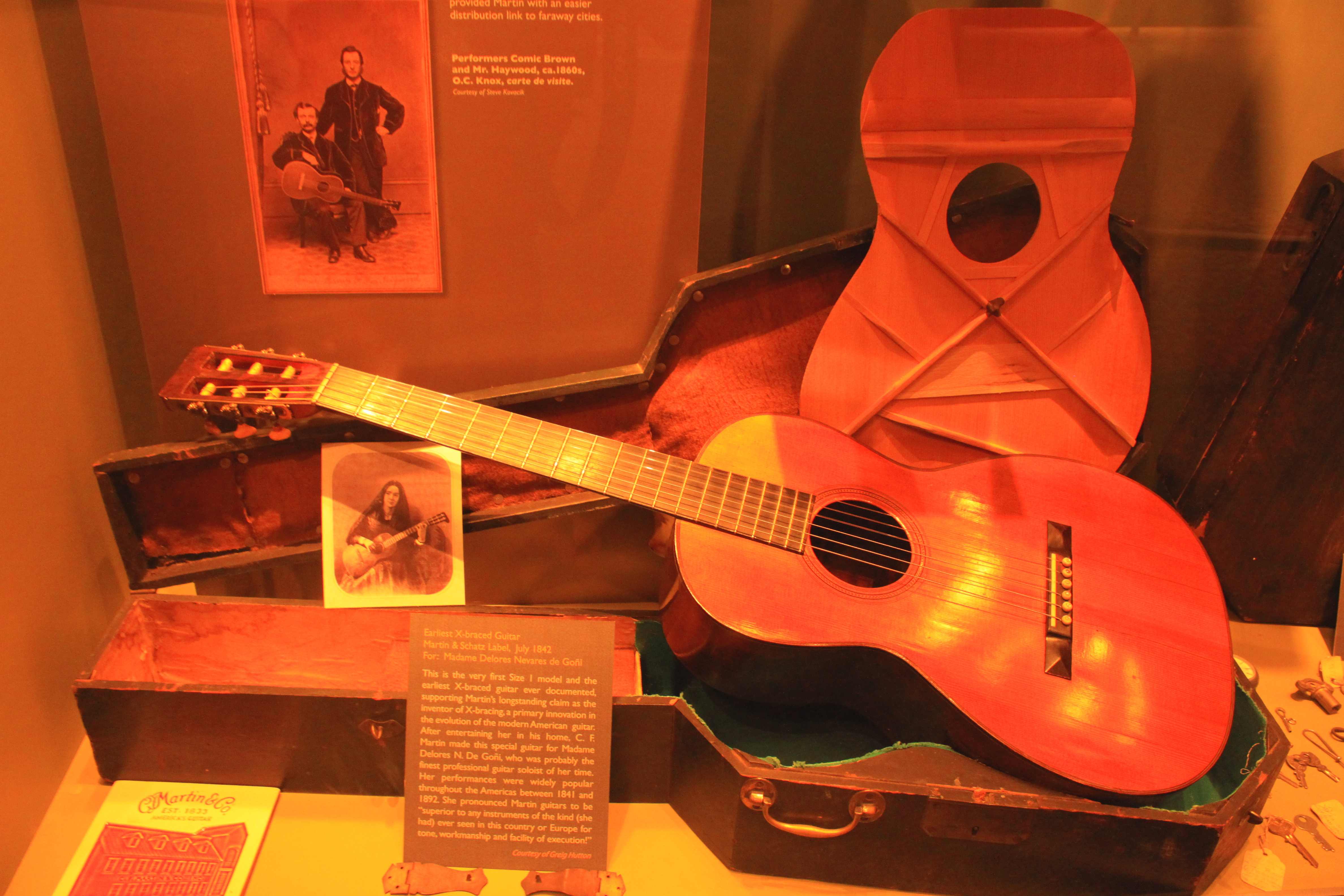 Earliest X-braced Guitar (July 1842), Martin & Schatz Label, for Delores Nevares de Goñi - C.F. Martin Guitar Factory 2012-08-06 - 013 1839-1859 Cherry Hill BY THE LATE 1830s, MARTIN HAD ESTABLISHED HIMSELF as a premiere musical instrument maker in New York City: ... Spanish-style guitar by C. F. Martin Circa 1845 ... Martin Style 3-17 1859 ... Earliest X-braced Guitar Martin & Schatz Label, July 1842 For: Madame Delores Nevares de Goni This is the very first Size 1 model and the earliest X-braced guitar ever documented, supporting Martin's longstanding claim as the inventor of X-bracing, a primary innovation in the evolution of the modern American guitar. After entertaining her in his home, C. F. Martin made this special guitar for Madame Delores N. De Goñi, who was probably the finest professional guitar soloist of her time. Her performances were widely popular throughout the Americas between 1841 and 1892. She pronounced Martin guitars to be "superior to any instruments of the kind (she had) ever seen in this country of Europe for tone, workmanship and facility of execution!" Courtesy of Greig Hutton